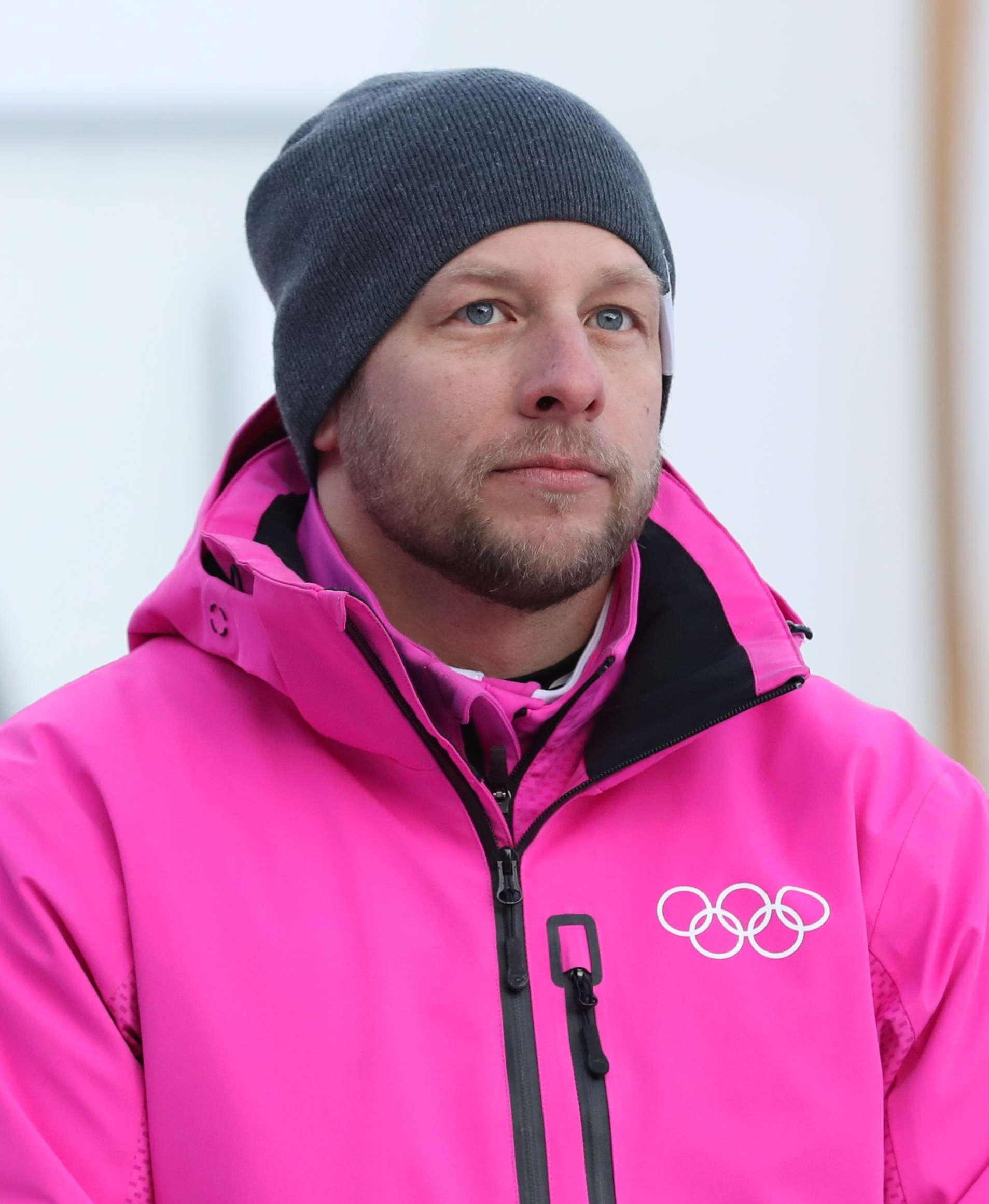 Mascot Ceremony Women's Skeleton at the 2020 Winter Youth Olympics in Lausanne